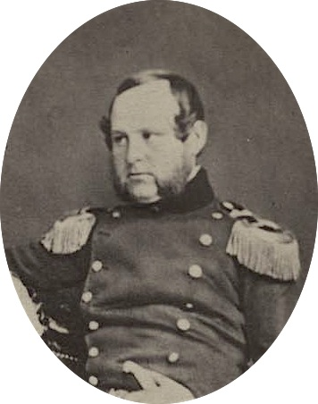 Dr. Carl Absalon Fürst (1822-1855), Swedish Naval surgeon (cropped)